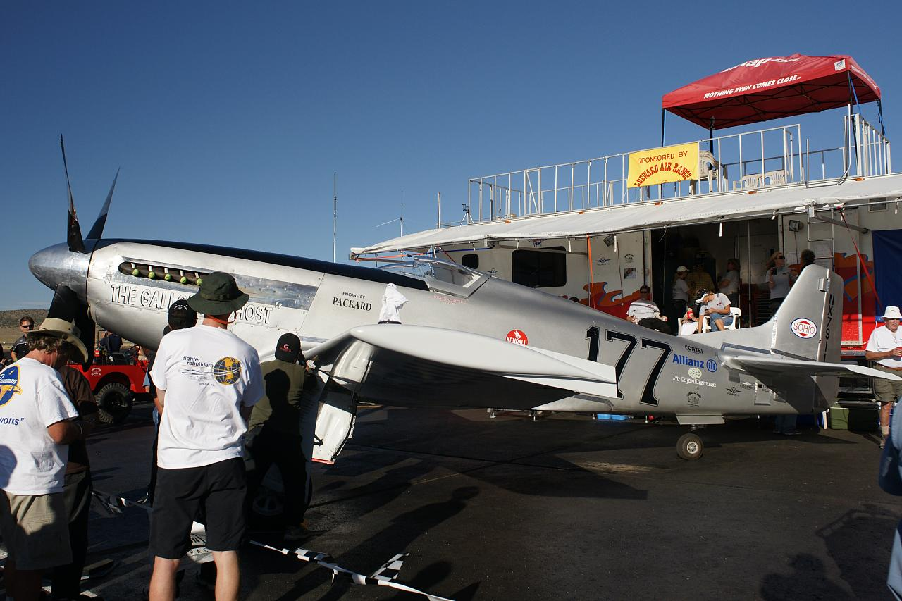 Jimmy Leeward's P-51D Mustang "Galloping Ghost" at the 2010 Reno Air Races